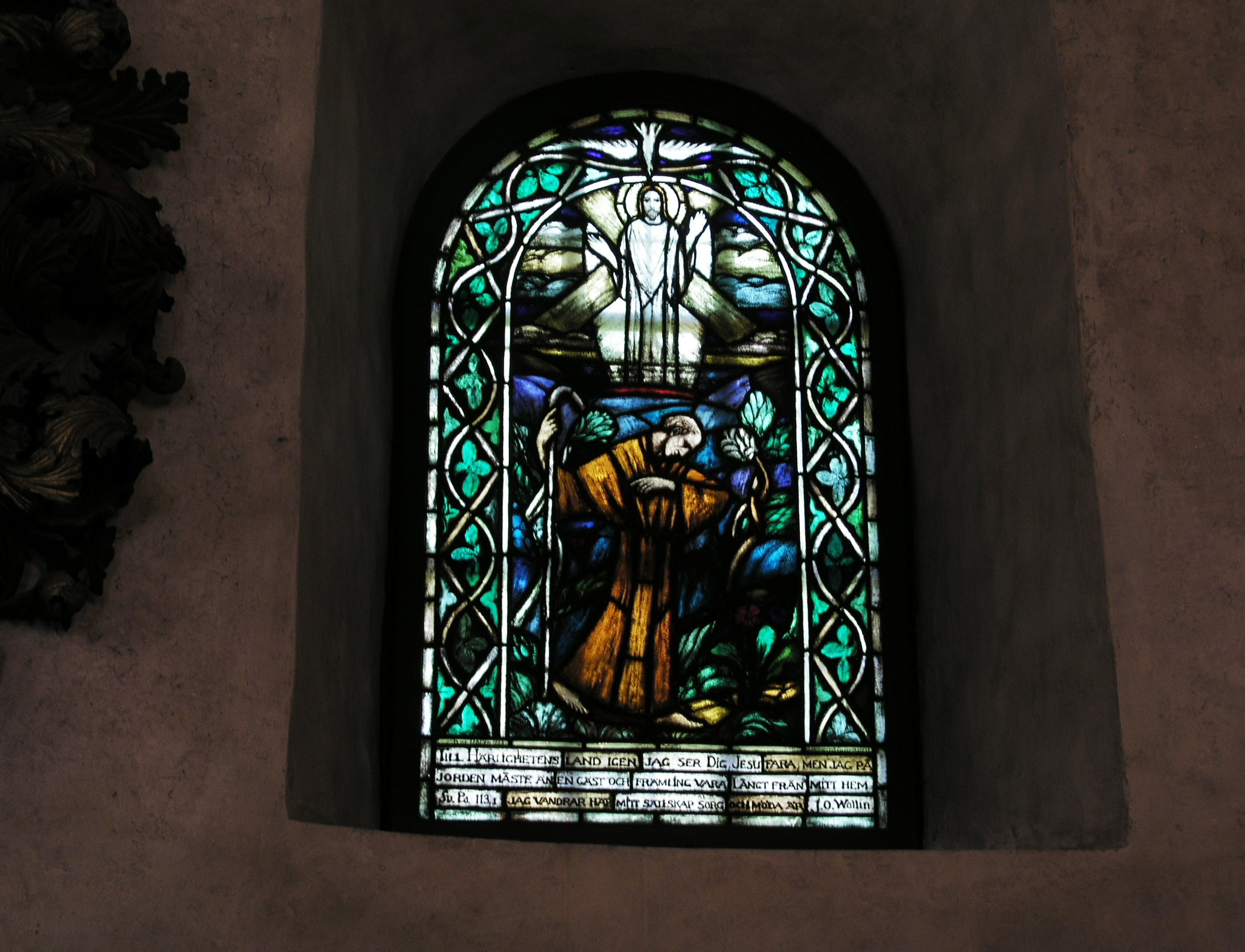 Solna Kyrka / Solna Church. Stockholms stift, Solna kommun.